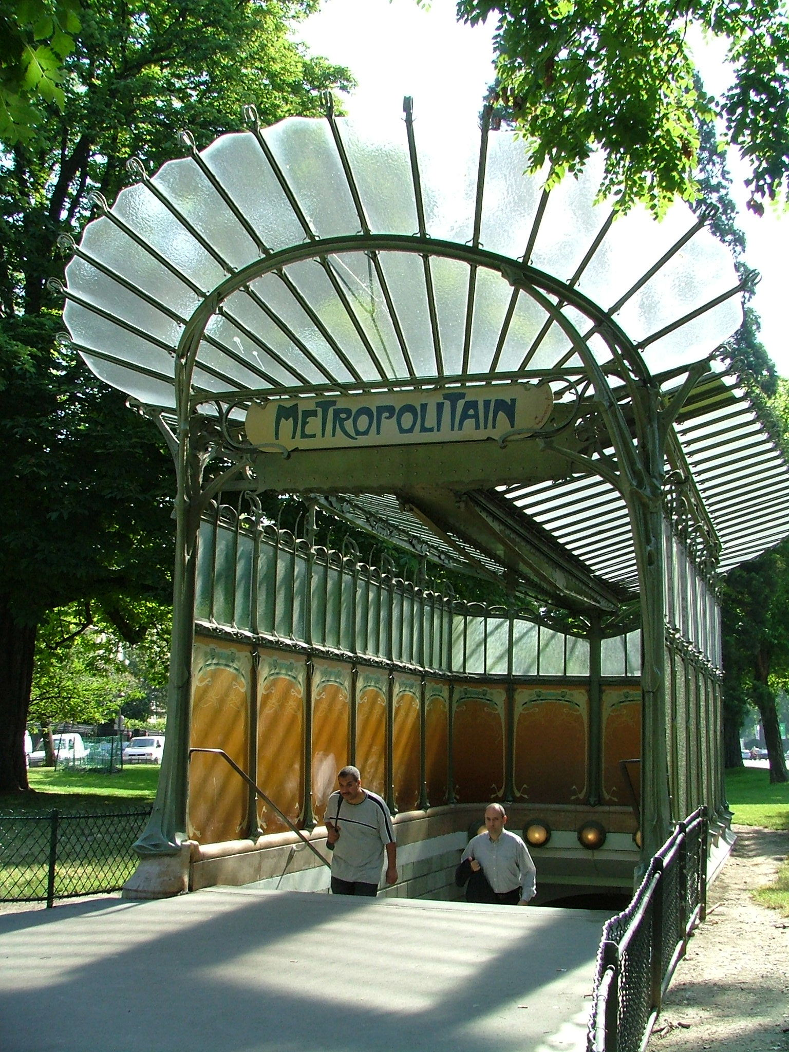 Entrance to Porte Dauphine of Paris Metro. Art Nouveau design by Hector Guimard.